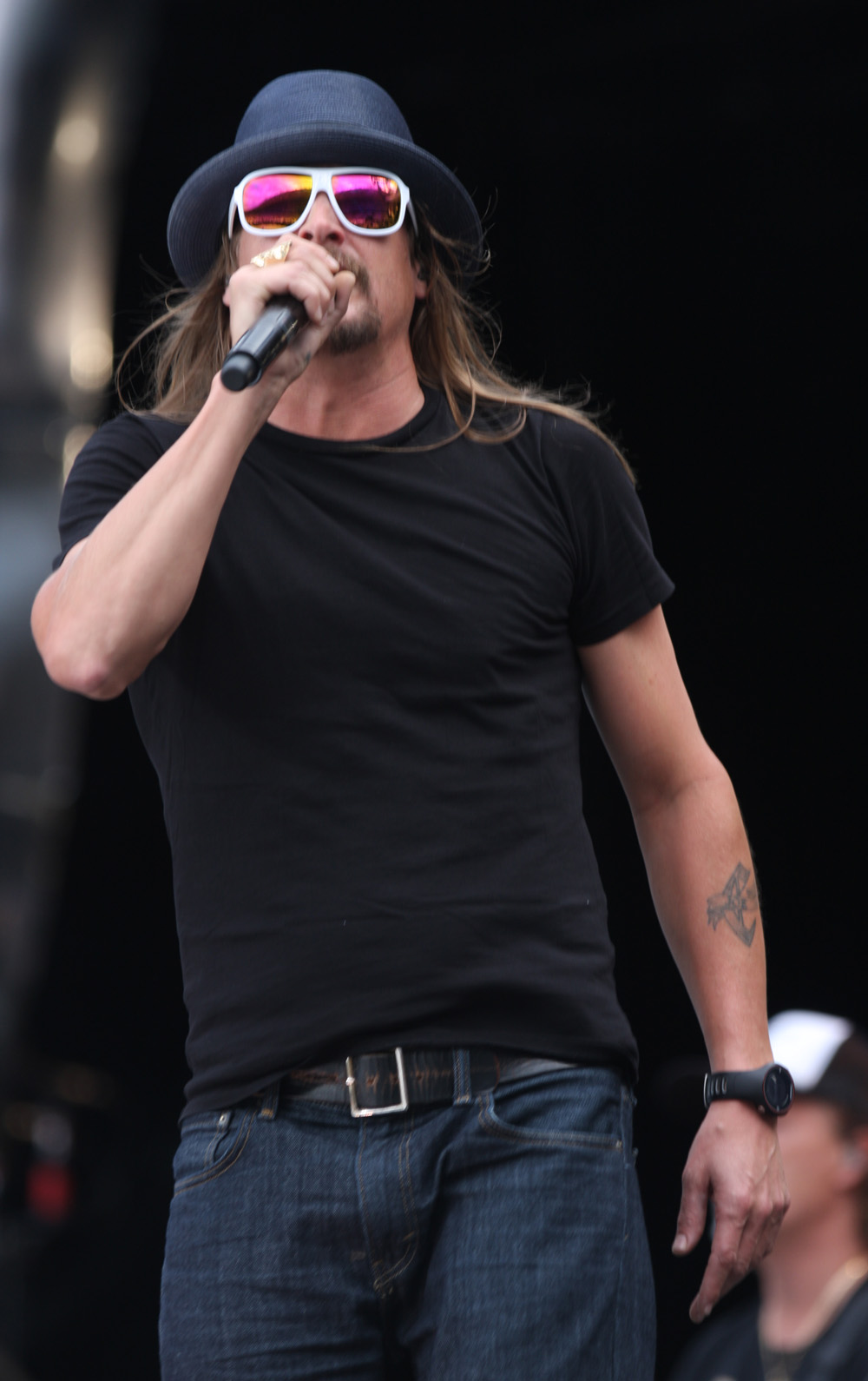 Kid Rock performing in Melbourne Dec 2013.